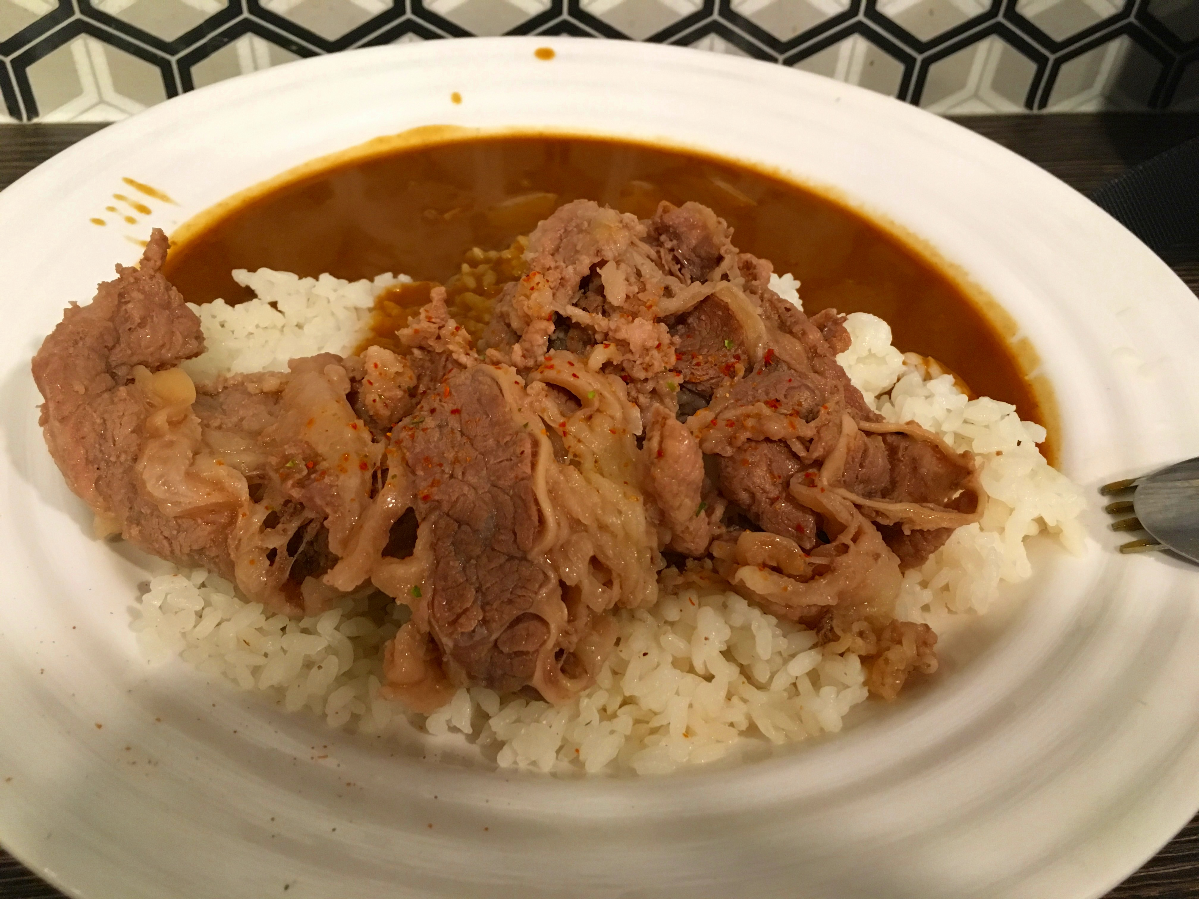 Japanese curry rice with shredded beef in Singapore